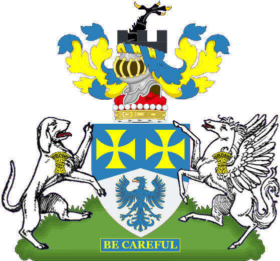 The armorial achievement of The Viscount Caldecote